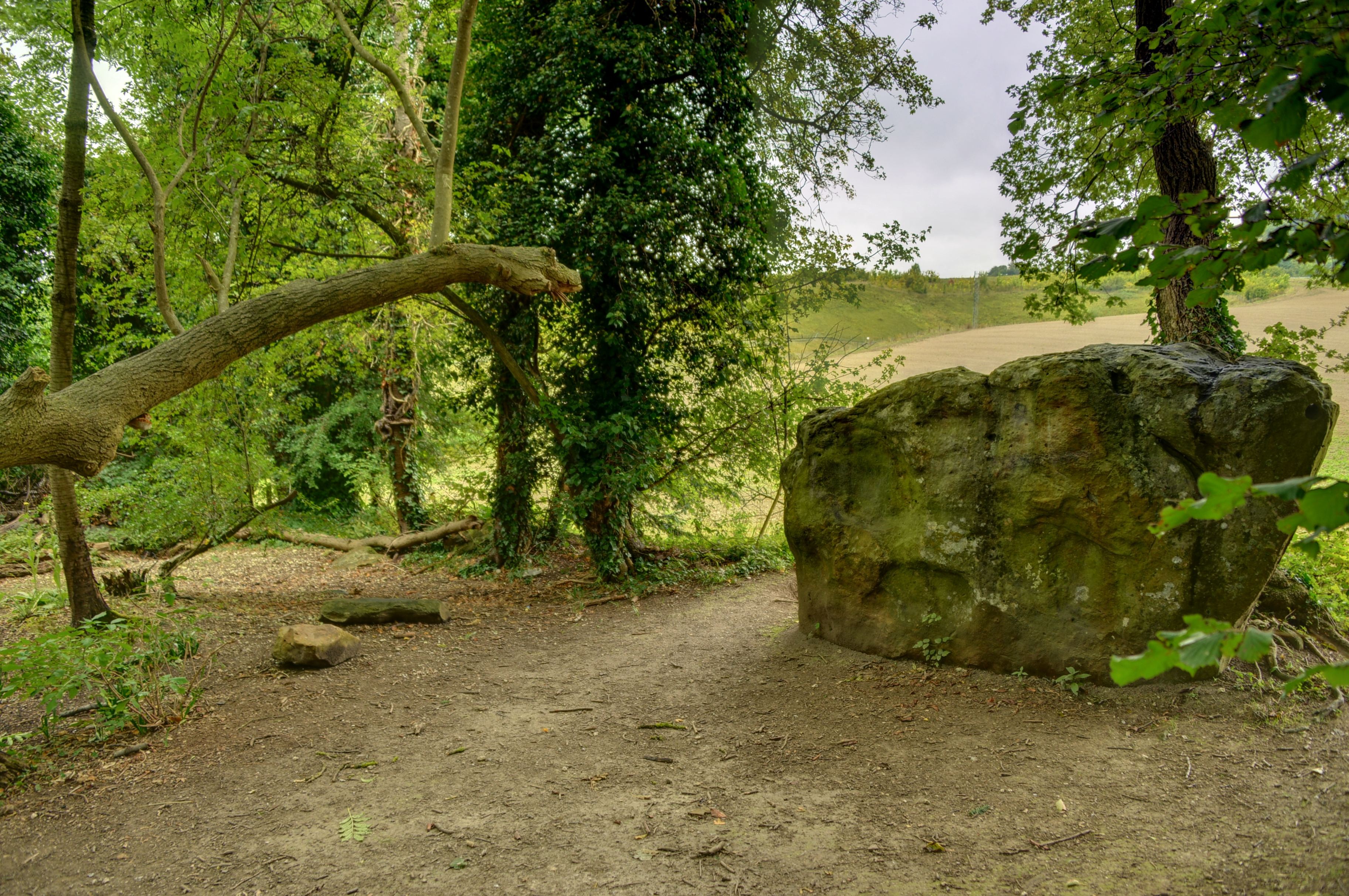 The White Horse Stone, a megalith on Blue Bell Hill, Kent, England, that was saved from the encroachment of a telephone company by a group of local neo-pagans.